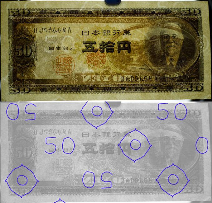 Watermark of Series B 50 Yen Bank of Japan note. The mark of the Bank of Japan and "50". First issued in 1951, issue suspended in 1958. Legal tender.